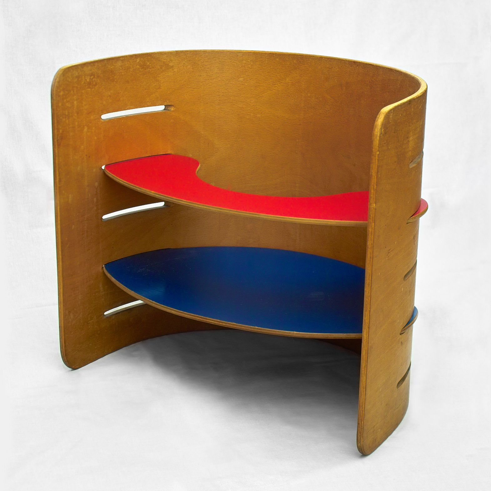 Multifunctional children's furniture in laminated beech by danish designer Kristian Solmer Vedel (Design: 1951, Manufacture: 1956). Manufacturer: Torben Ørskov & Co. Awarded silver medal at La Triennale di Milano, 1957.